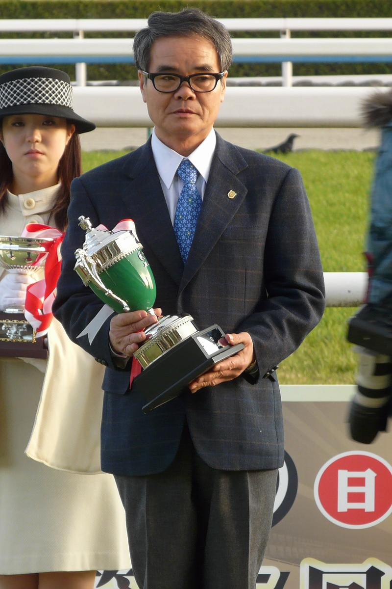 Hidetaka-Otonashi20110109